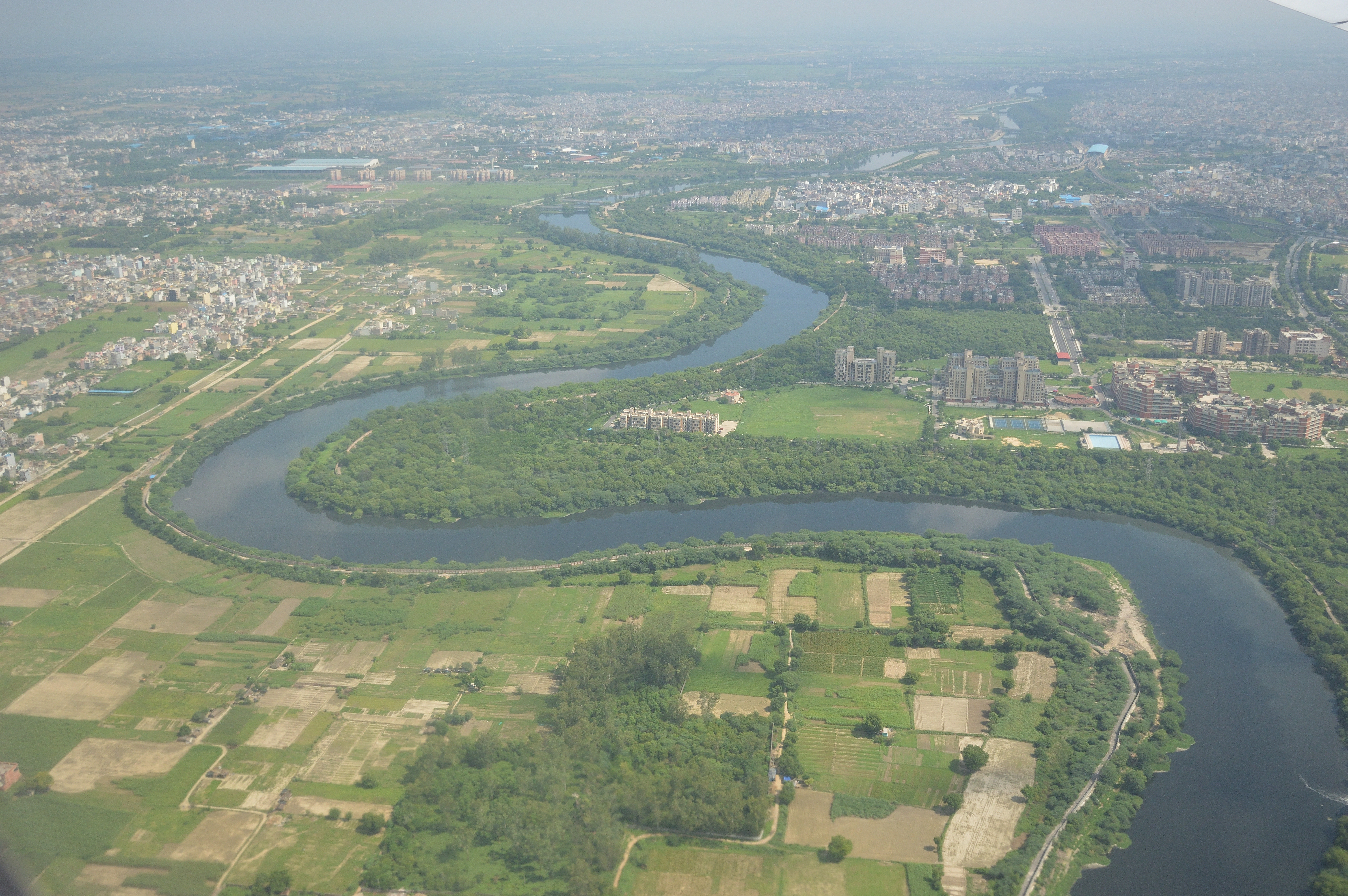 This photograph has been taken in India.